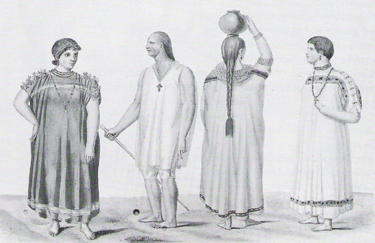 Costumes of the Chiquitanos drawn by Alcides d'Orbigny during his Travels 1831